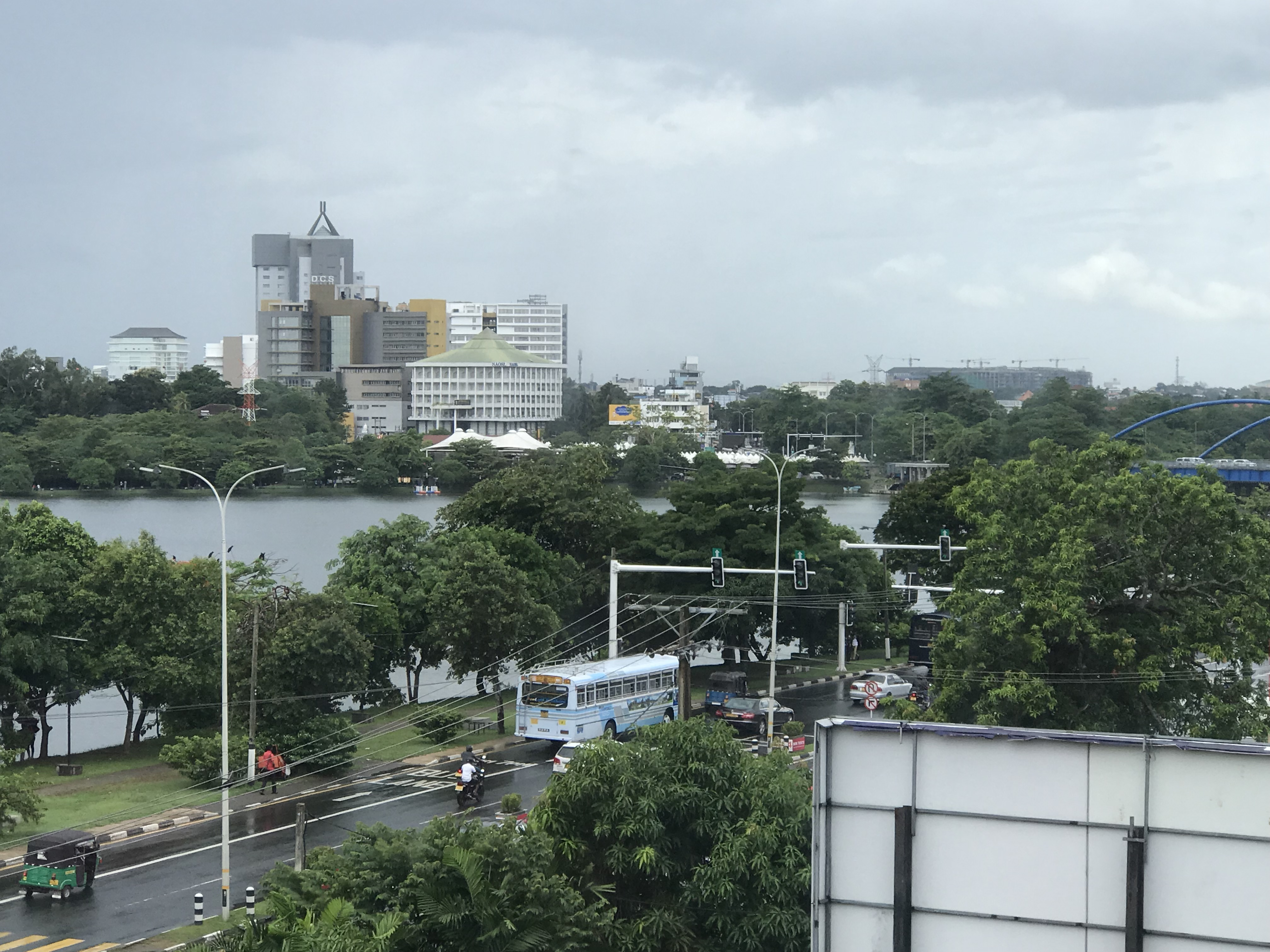 This is a photo of the battaramulla city from Kotte side.